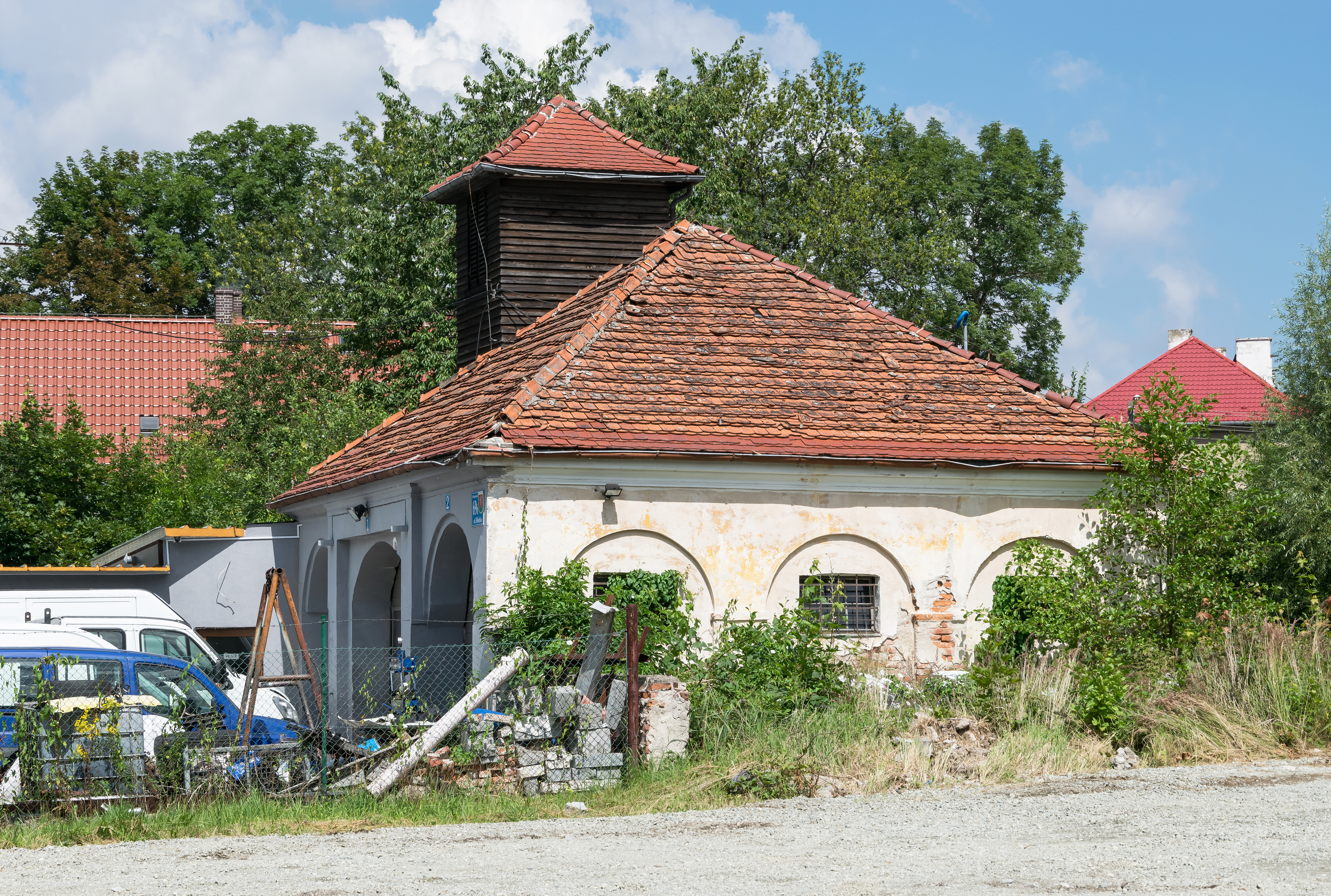 Former fire station in Ołdrzychowice Kłodzkie